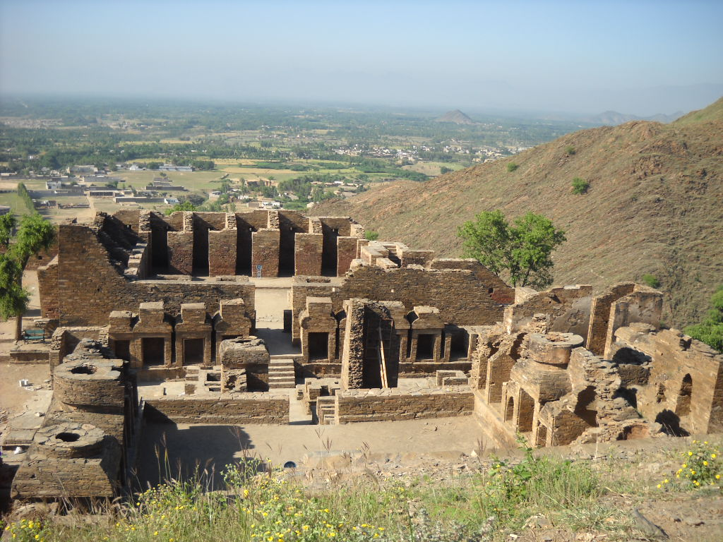 Takht-i-Bahi Buddhist ruins This is a photo of a monument in Pakistan identified as the KPK-34